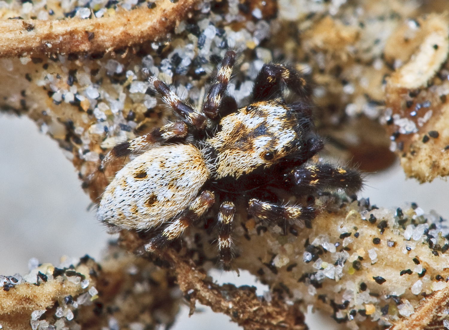 Male Terralonus californicus jumping spider. These spiders were collected just north of Imperial Beach, south of San Diego. Here one can still find decent stabilized dunes, although they are mostly covered with non-native vegetation. Terralonus is common under debris, in sand-covered silken sacs, from the high-tide line to the edge of the dunes.